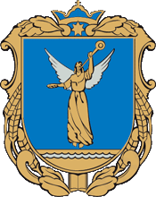 Coat of arms of Tlumach Raion